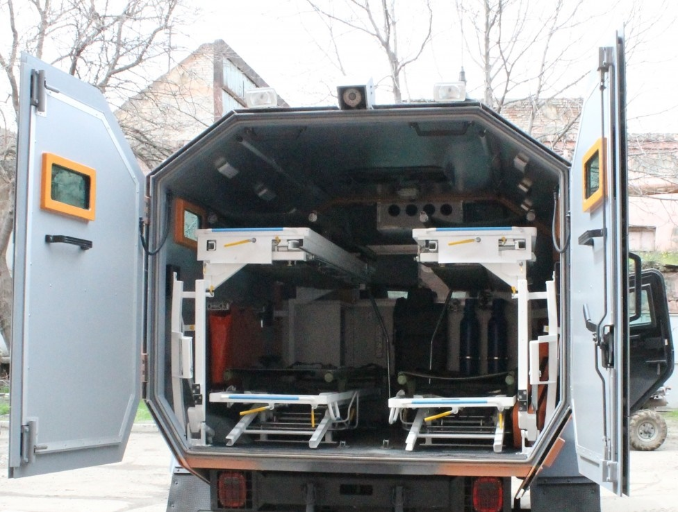 Didgori Medevac - Medical module